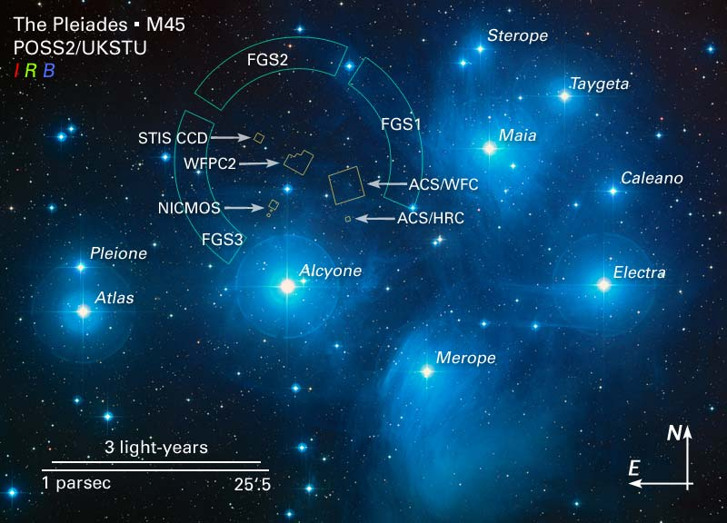 Hubble's look through the Pleiades (M45).